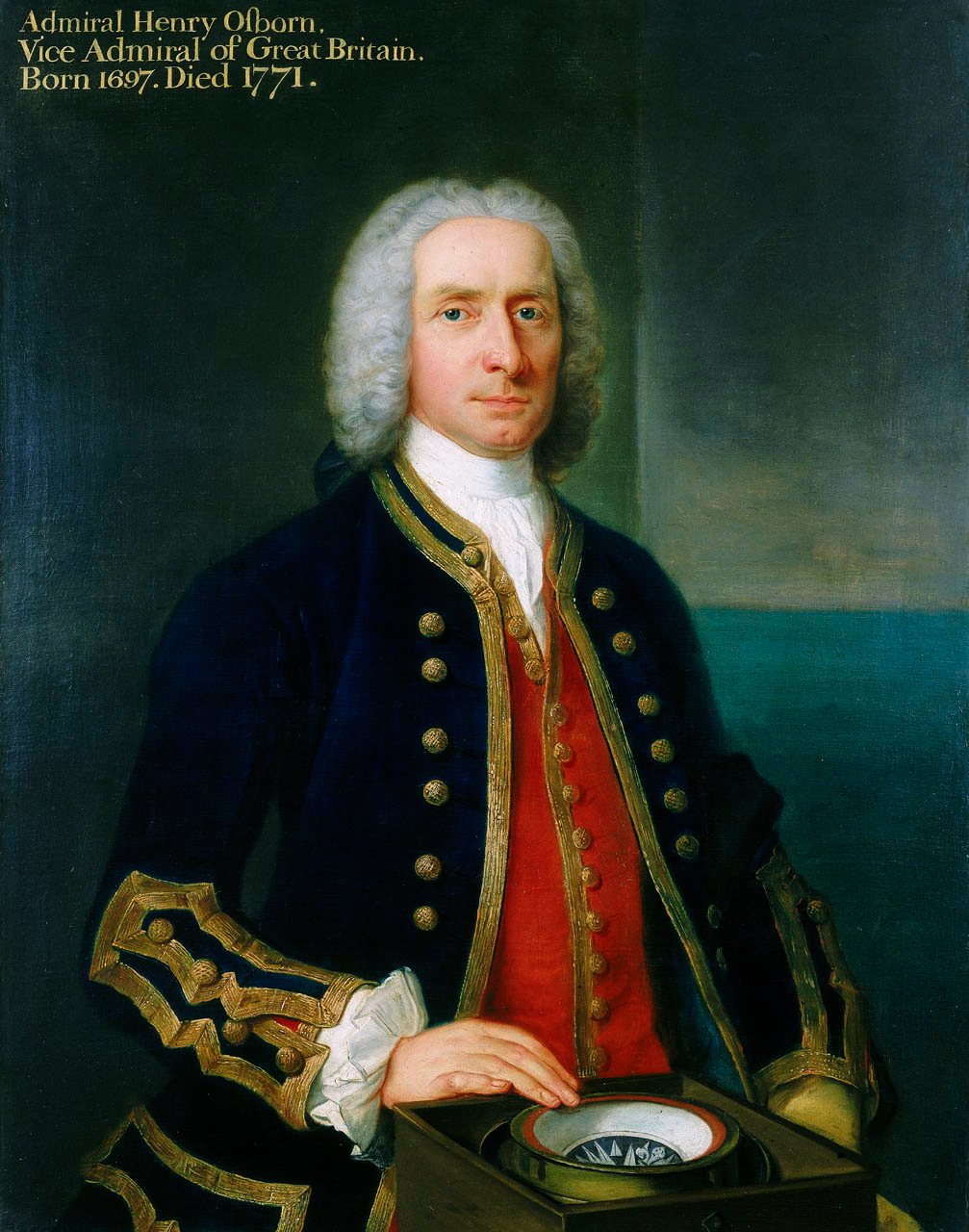 Claude_Arnulphy. Captain Henry Osborn